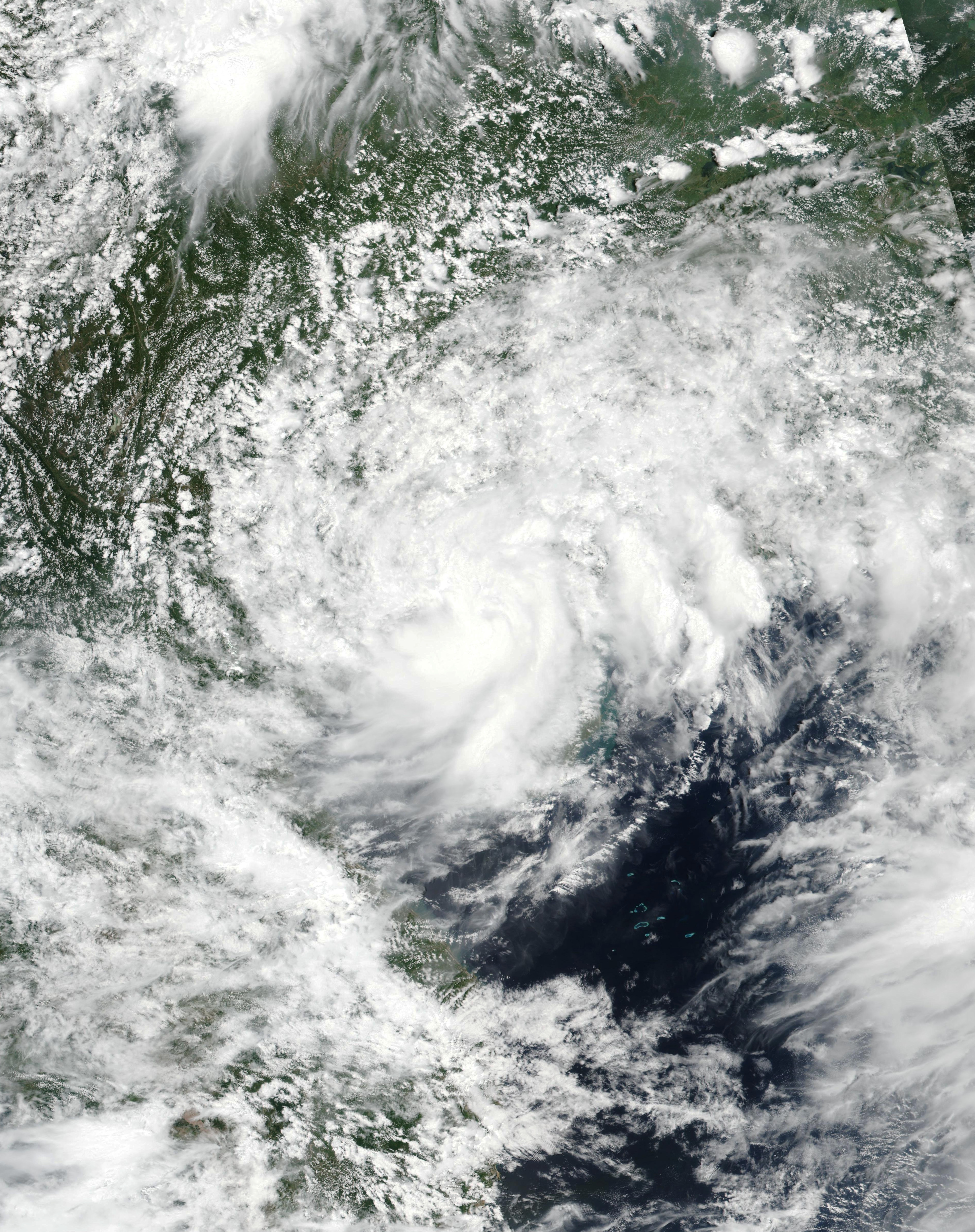 Tropical Storm Wipha in the Gulf of Tonkin on August 2, 2019